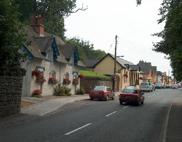 Looking along the street of Moynalty